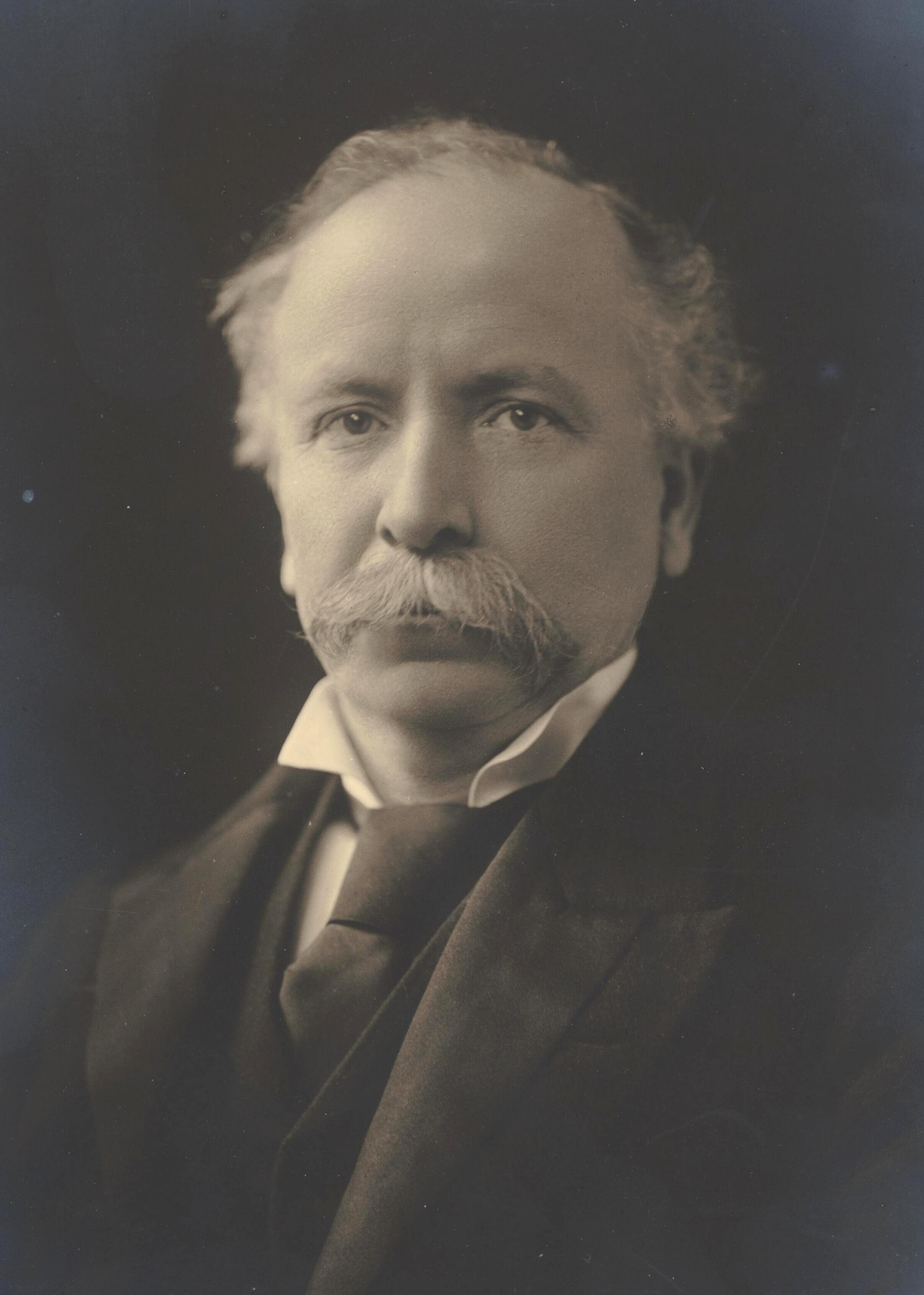 Portrait of Sir John Langdon Bonython, Australian politician . Taken 1915. [1]